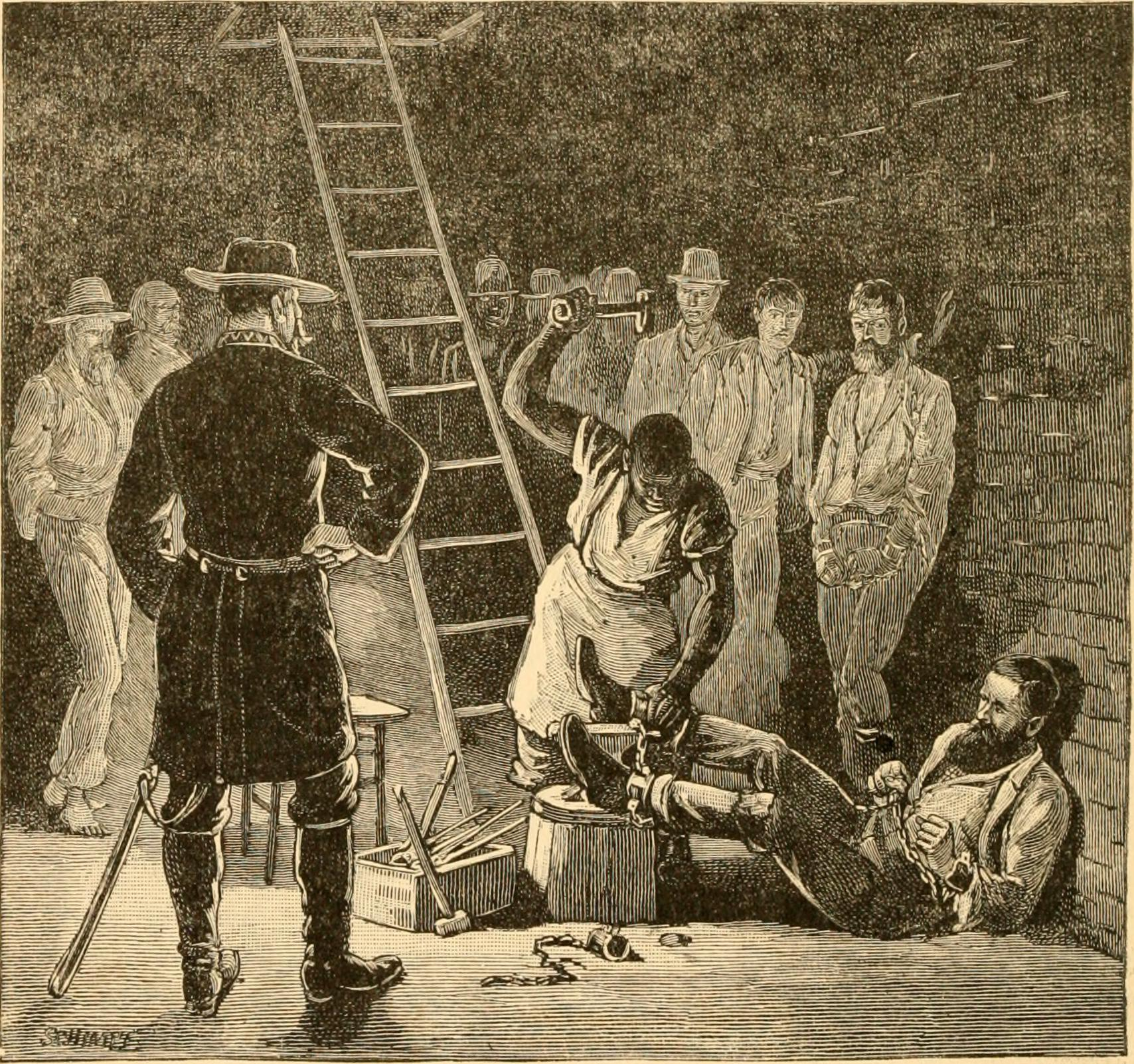 Image from page 268 of "The great locomotive chase; a history of the Andrews railroad raid into Georgia in 1862" (1917)